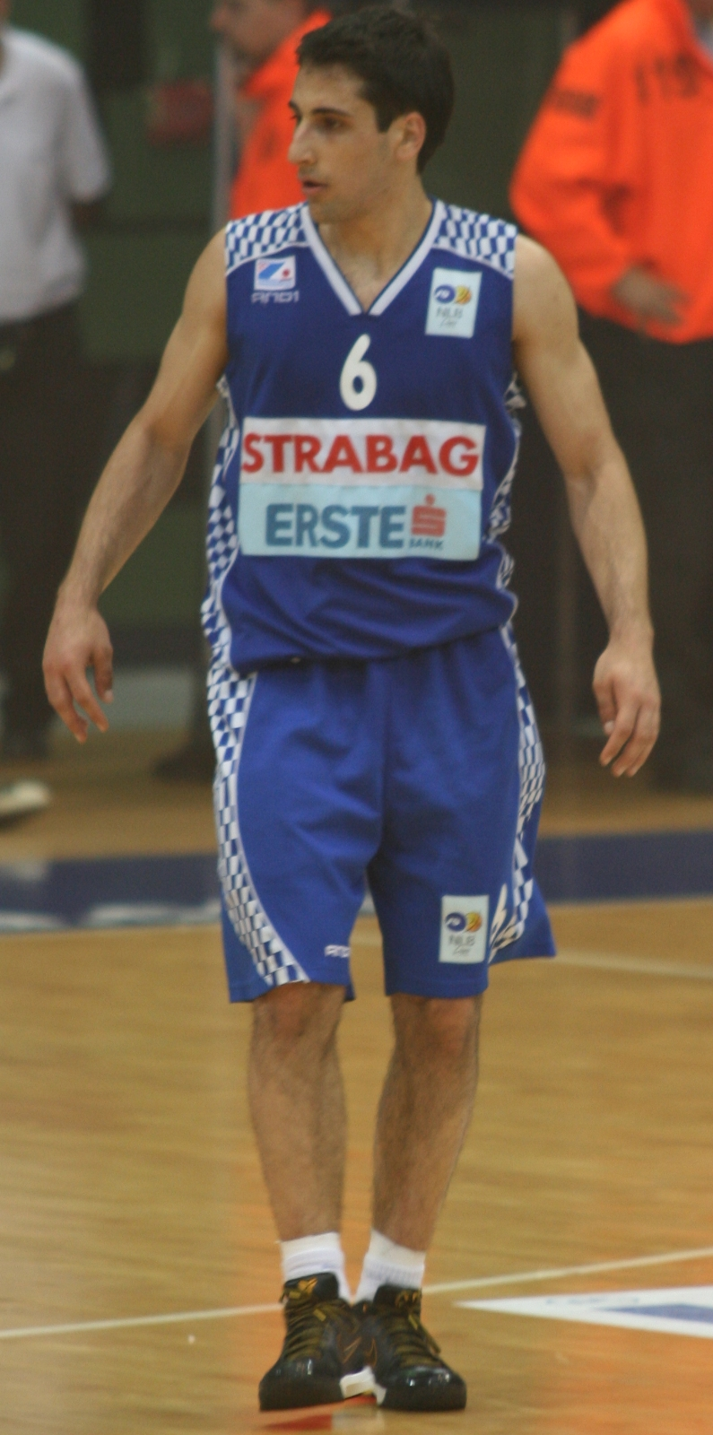 Rok Stipčević, player of Zadar, in third match of Croatian basketball finals season 2009/2010